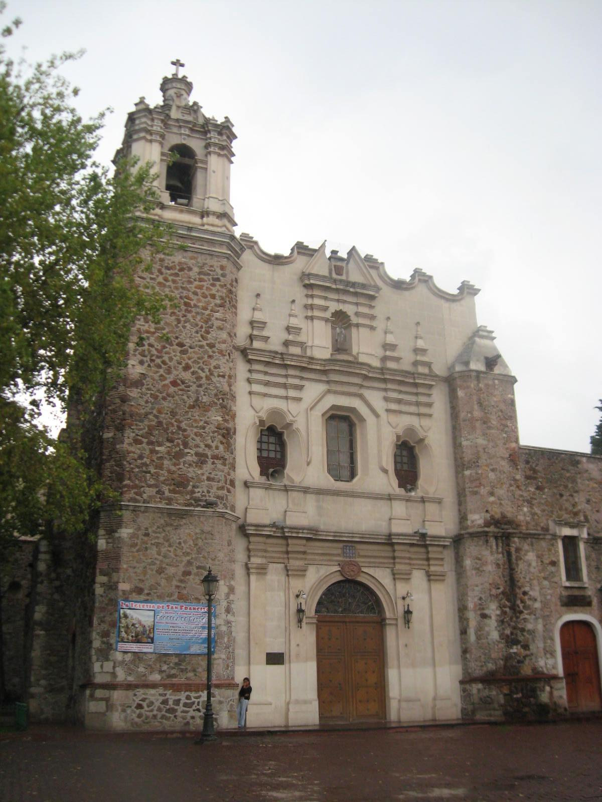 Entrance to Ex Convent of San Francisco located on Morelos Street in Pachuca Mexico